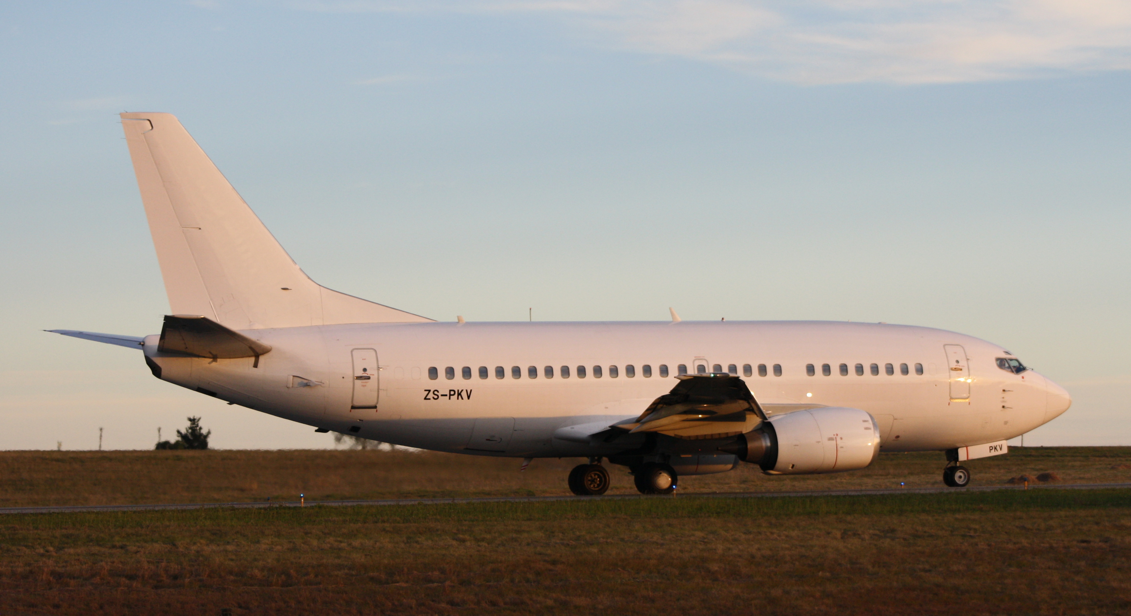 Leased Mango B737-529 ZS-PKV